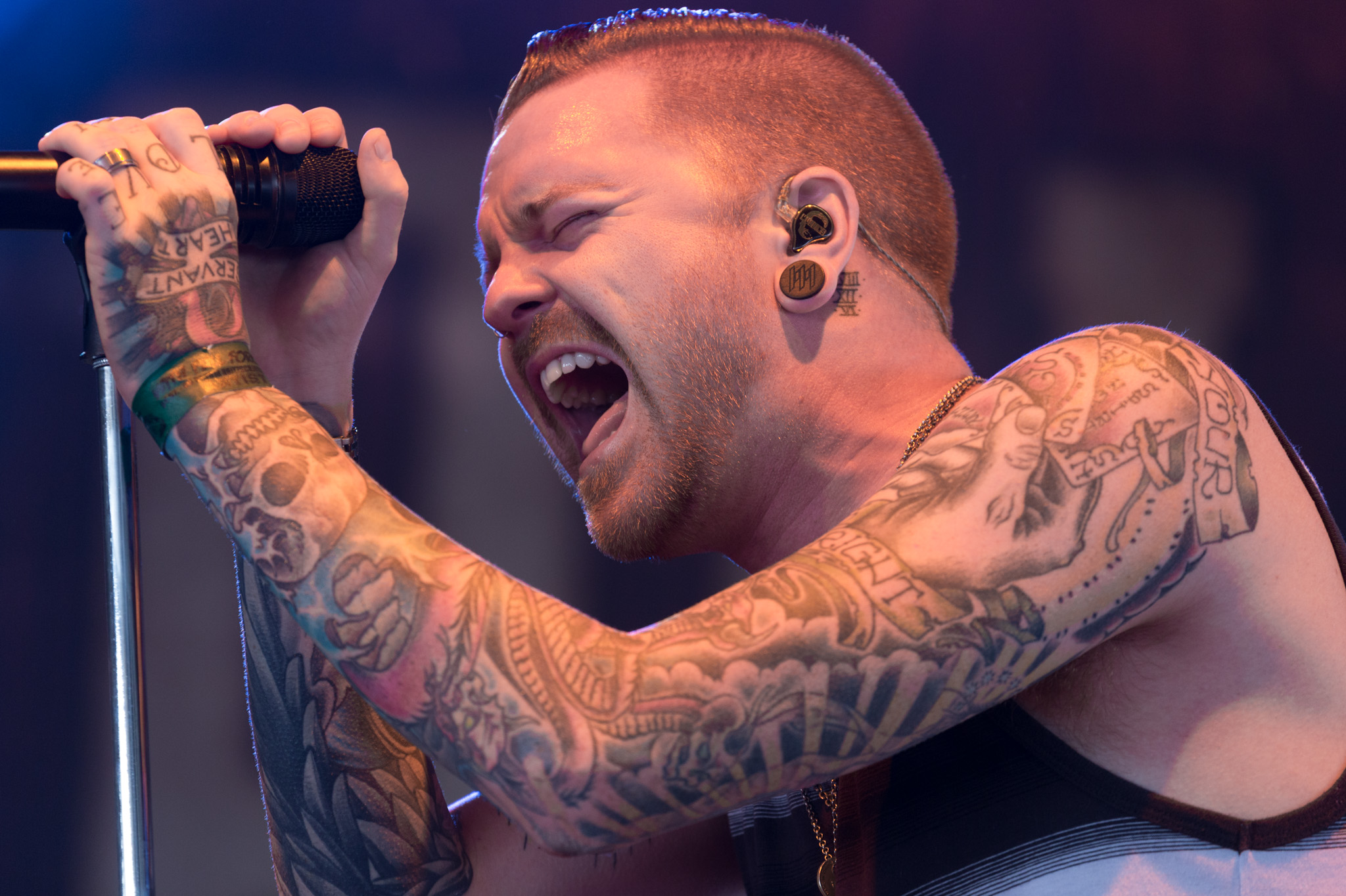 Memphis May Fire performing at the With Full Force Festival, July 2014